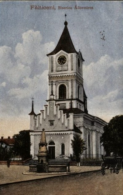 Church of the Assumption of Virgin Mary in Fălticeni (Suceava County, Romania) in early 20th century.